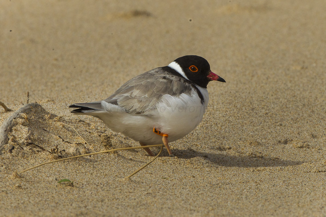 Hooded Plover - Phillip Is - Victoria_S4E1892